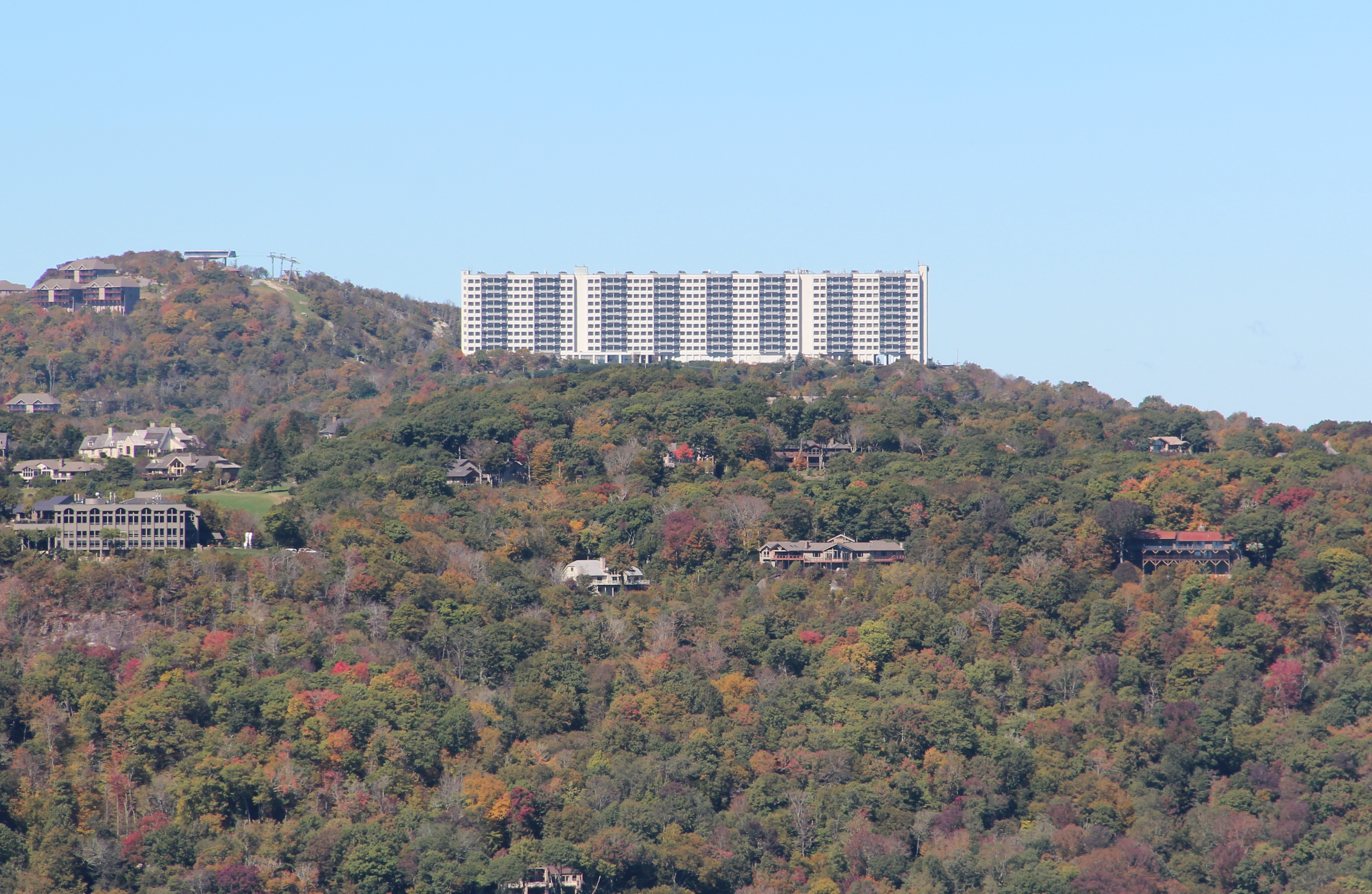 Sugar Top Condos on Sugar Mountain viewed from Grandfather Mountain